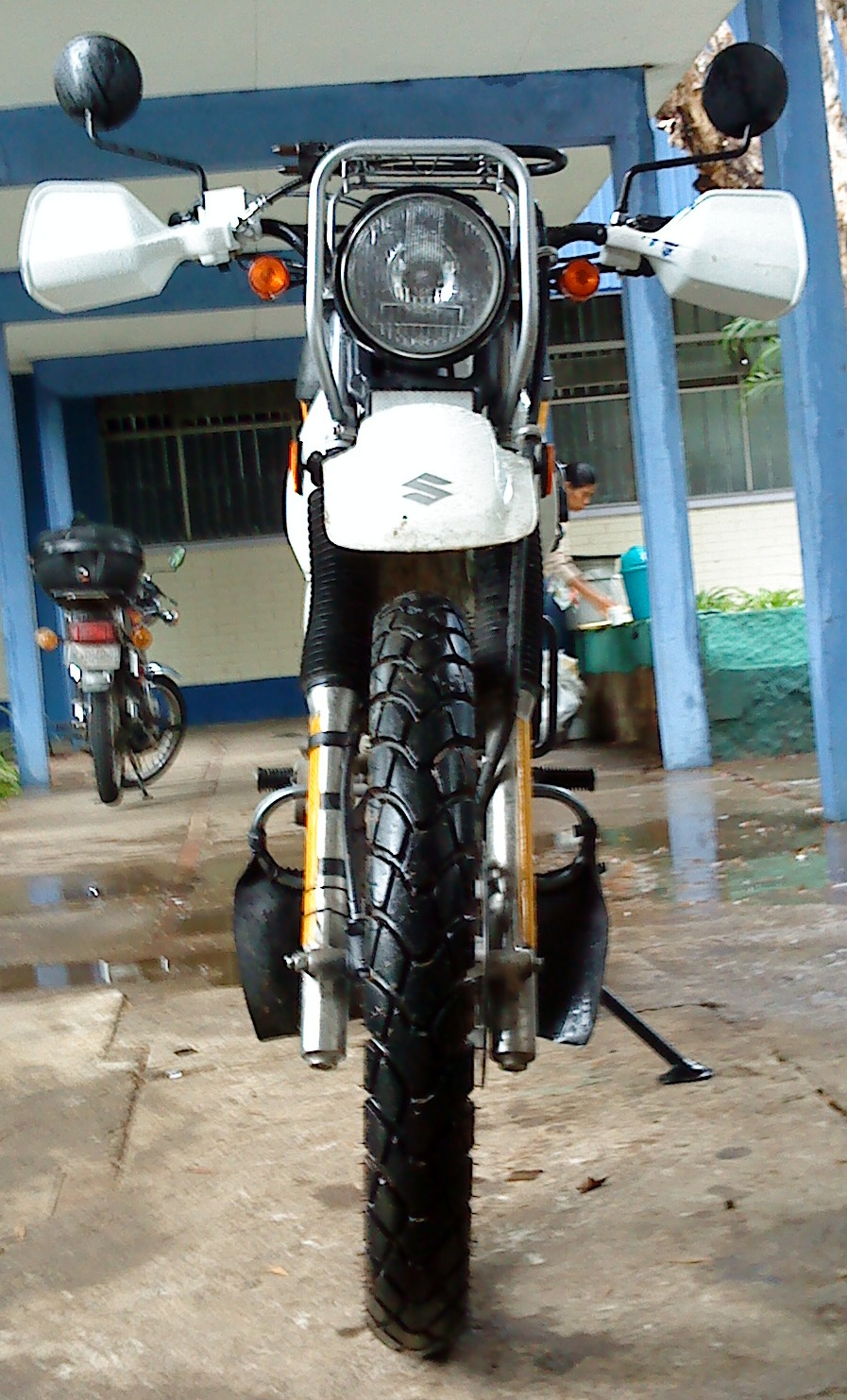 2008 Suzuki DR200SE E-06 specification (South Africa), front view, SH42A.